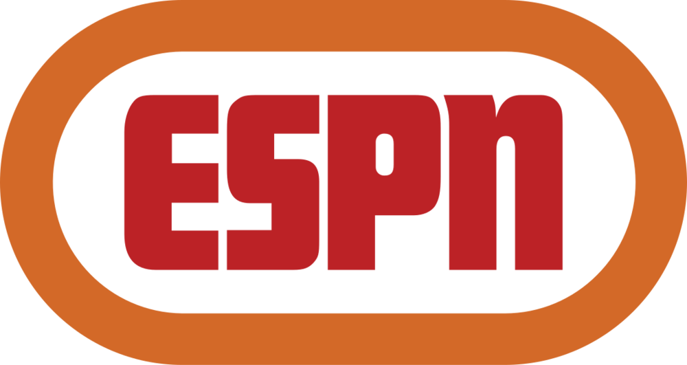 ESPN's first logo until 1985